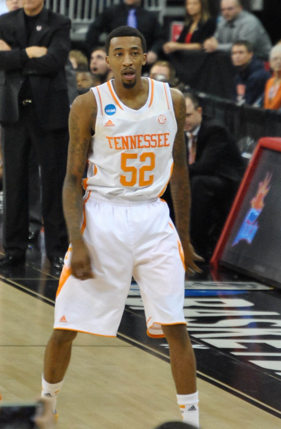 Jordan McRae passes the ball for the Volunteers